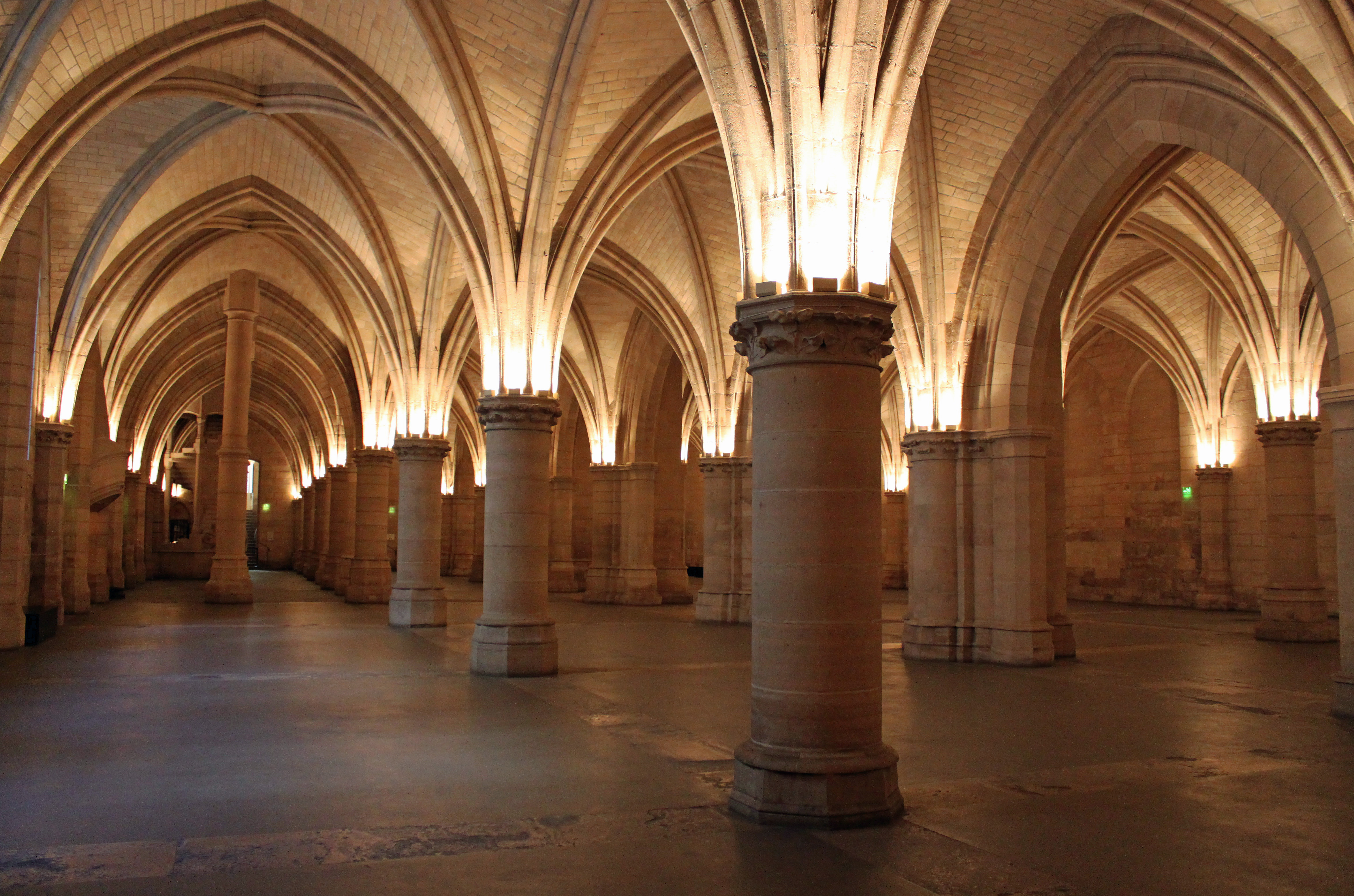 "Salle des Gens d'Armes" of the Conciergerie, Paris.